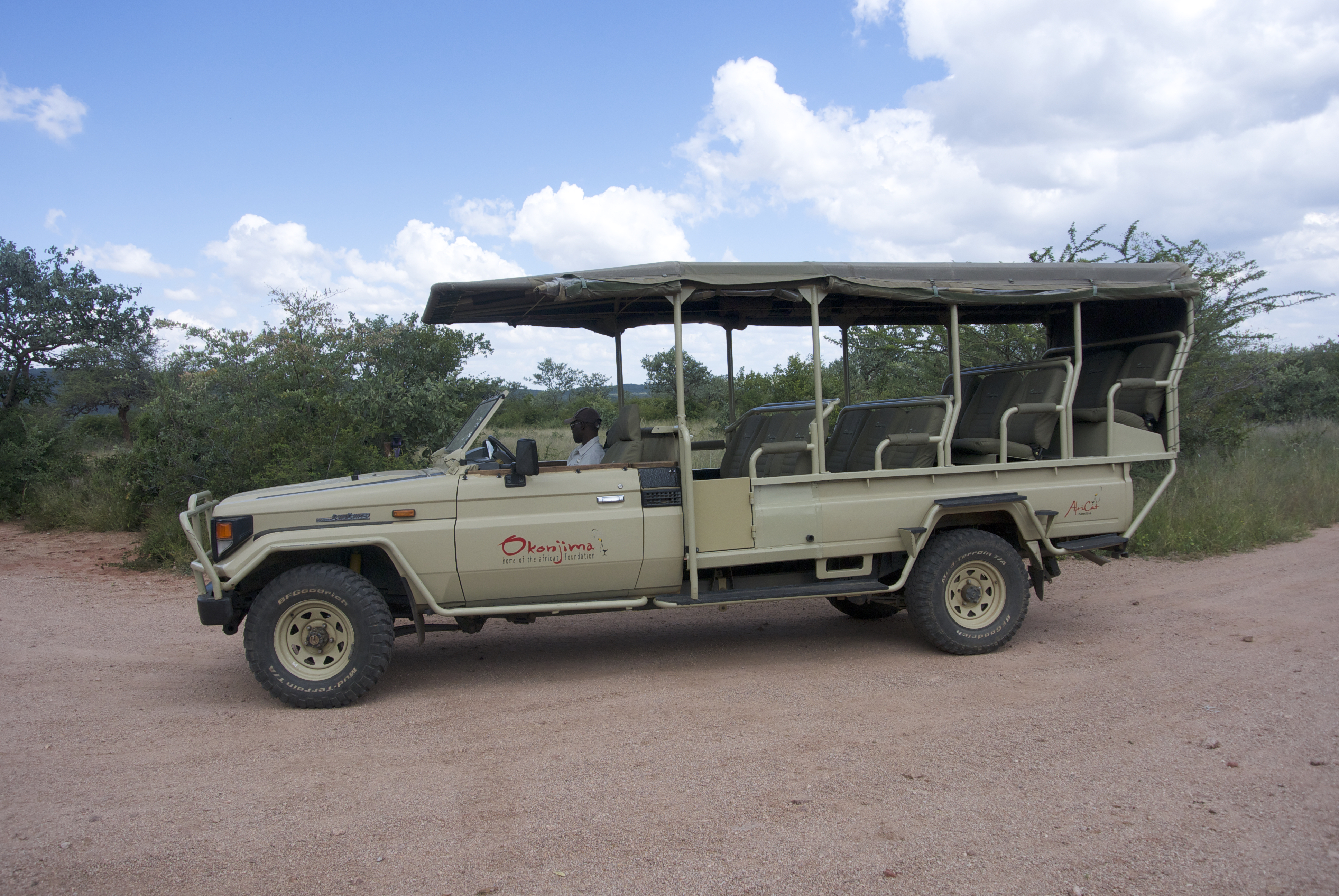 This is an image with the theme "Africa on the Move or Transport" from: Namibia